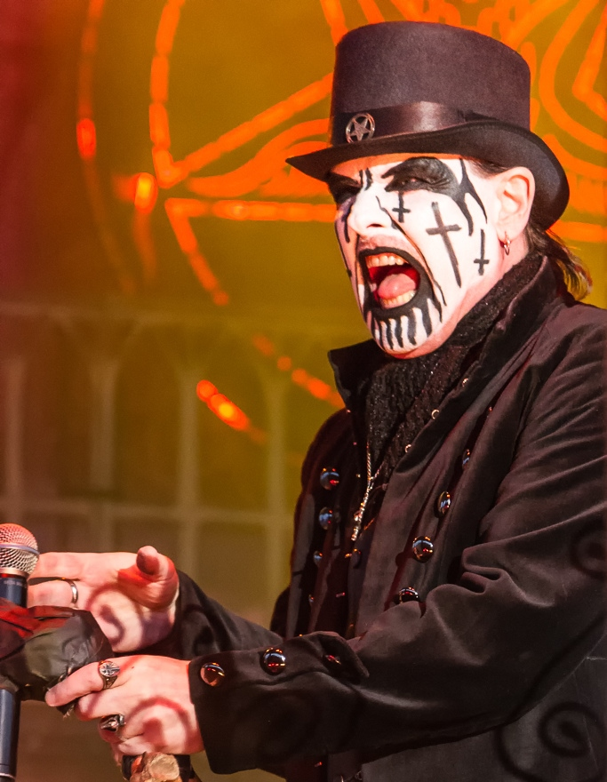 King Diamond performing live at Rock Hard Festival (2013).